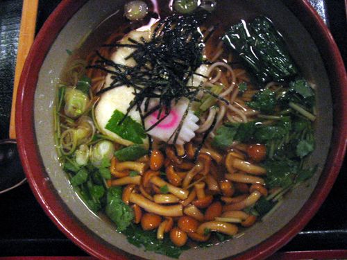 Soba with tororo and nameko